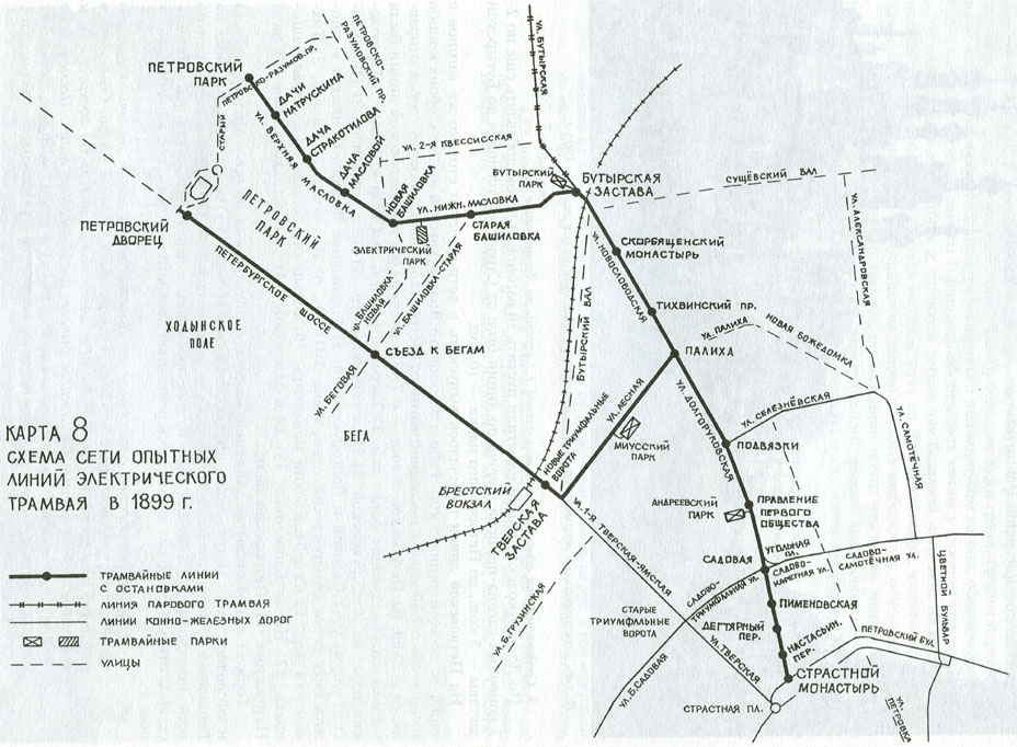 Схема сети опытных линий электрического трамвая в 1899 г.